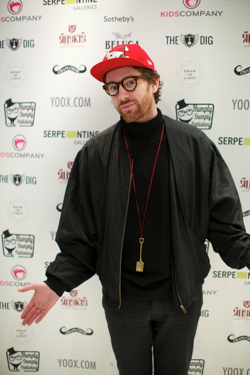 Philip Colbert at the Serpentine